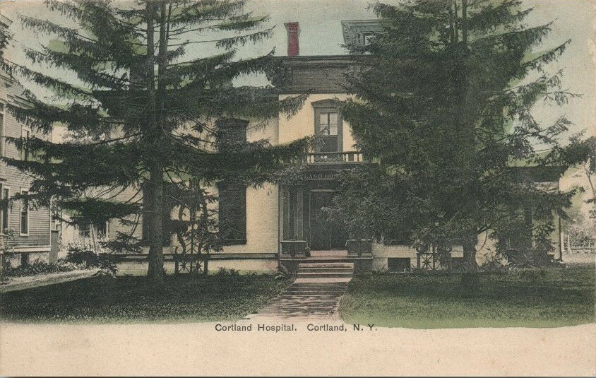 postcard of Cortland Hospital, Cortland, New York, circa 1906